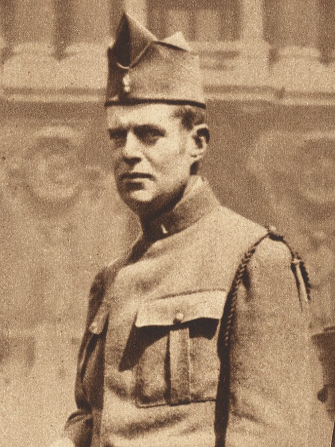 Captain Algernon E. Sartoris, Grandson of General U. S. Grant, a Recruit in the Foreign Legion of the French Army, Where He Has Been Largely Engaged in Getting Into Shape the American Volunteers in That Legion.